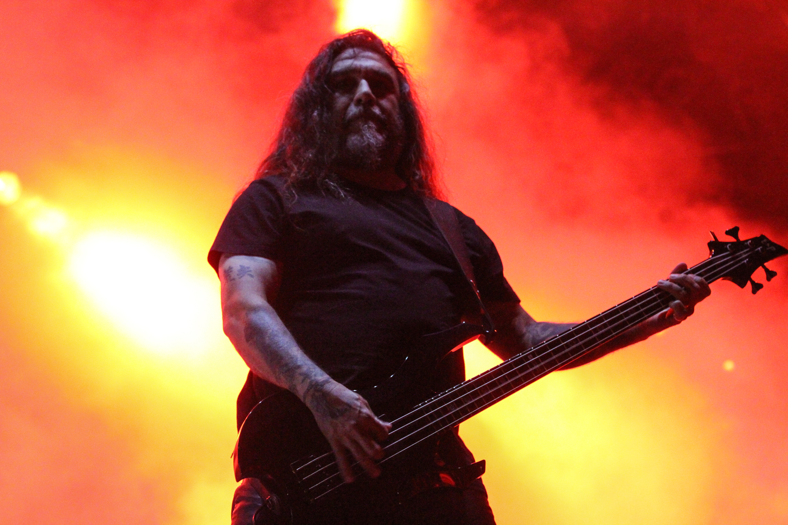 Festivalsommer This photo was created with the support of donations to Wikimedia Deutschland in the context of the CPB project "Festival Summer".